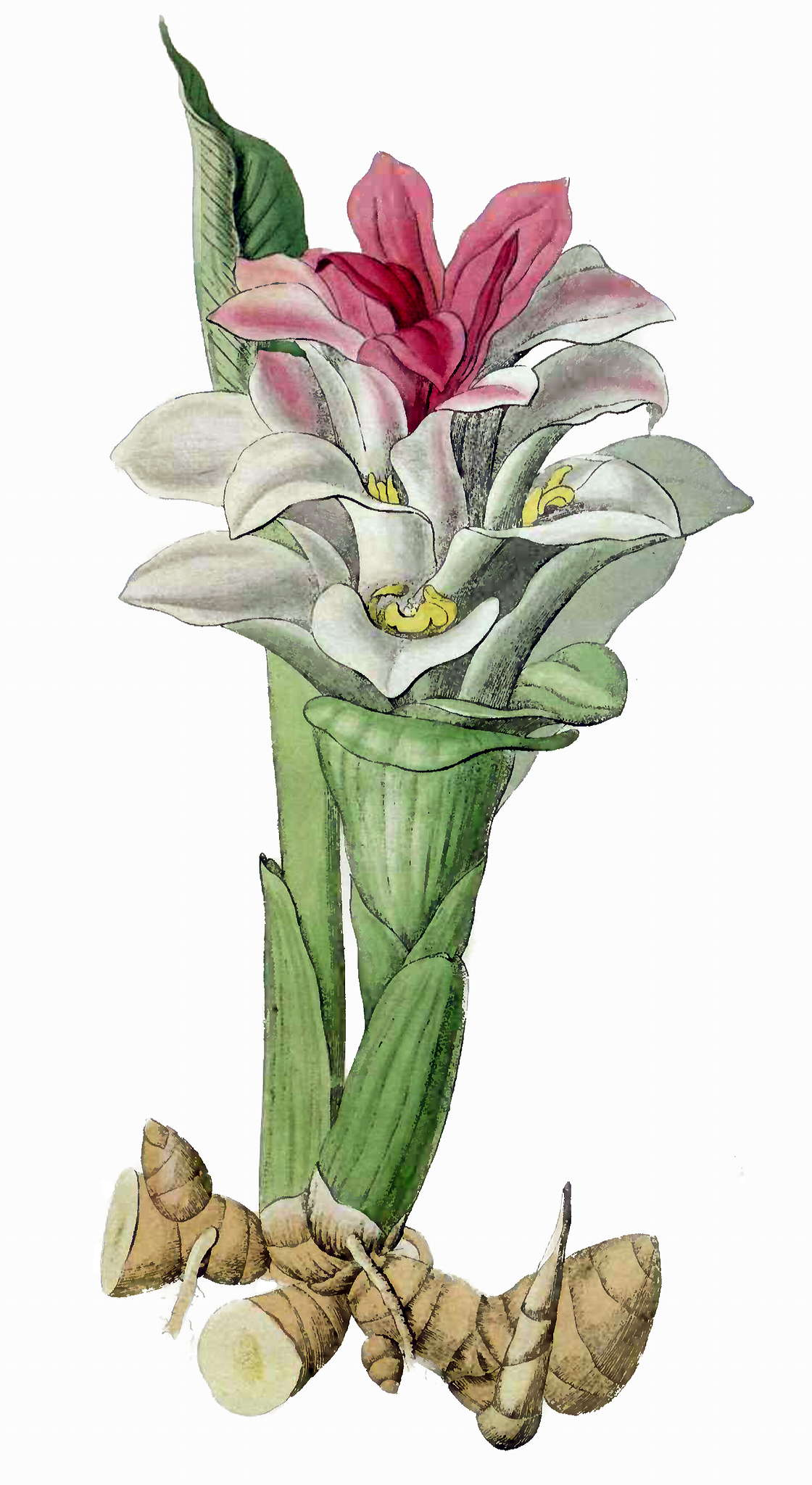 Part of the plate depicting Curcuma aromatica from t. 96, The Paradisus Londinensis. Original scan processed to improve colour and remove background of yellowed paper.